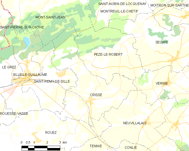 Map of French municipality